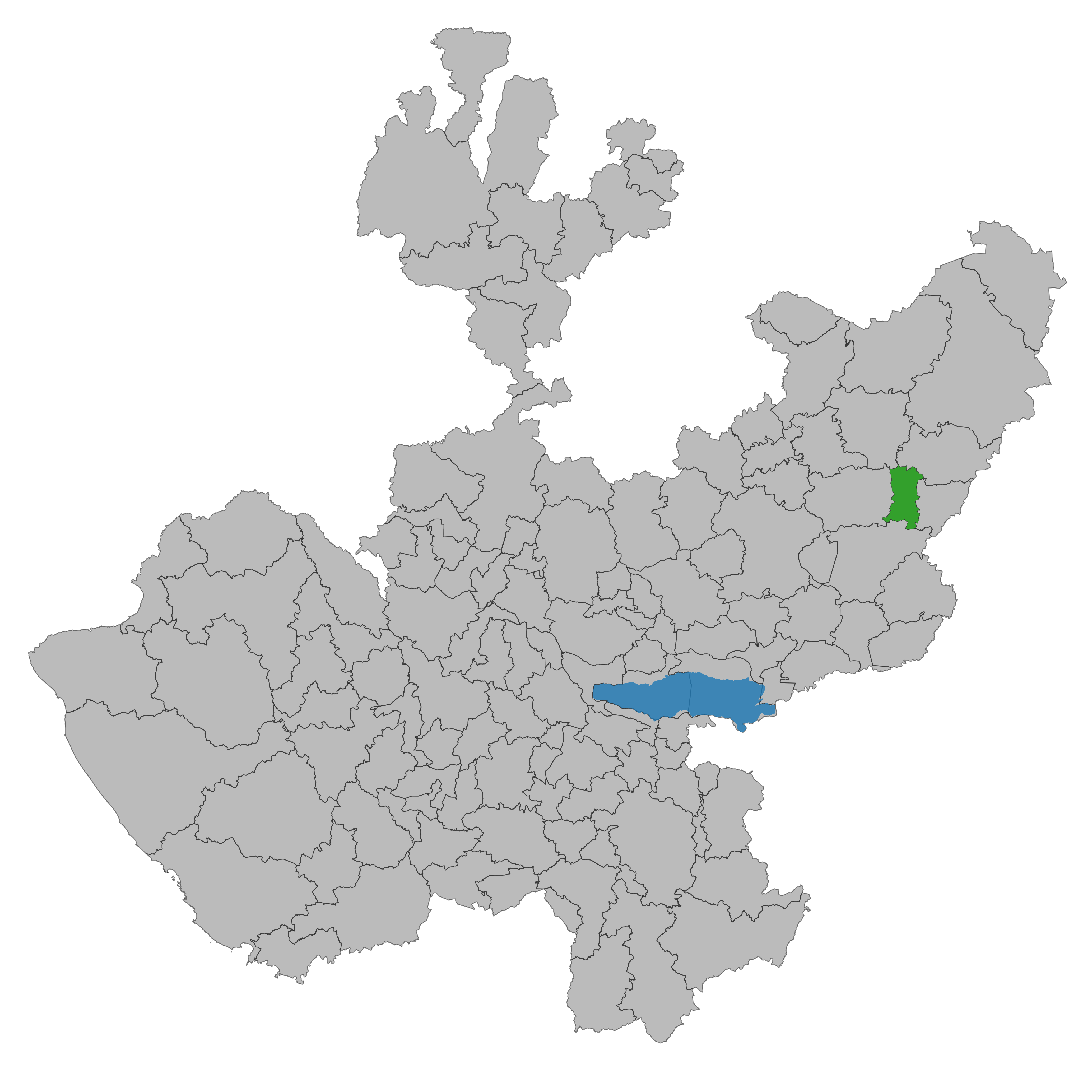 Municipality of Jalisco. Prepared with the software QGIS version 2.8.2 Wien & with information of SCINCE 2010 version 05/2013